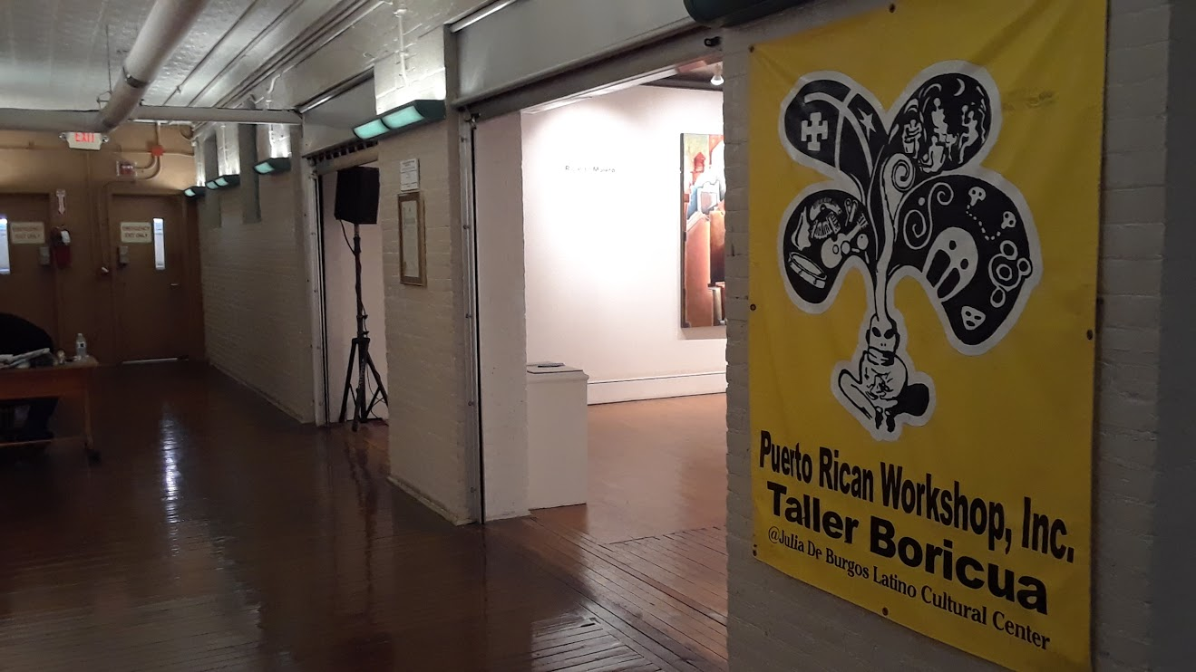 Taller Boricua, non-profit artist run organization in Manhattan, New York.